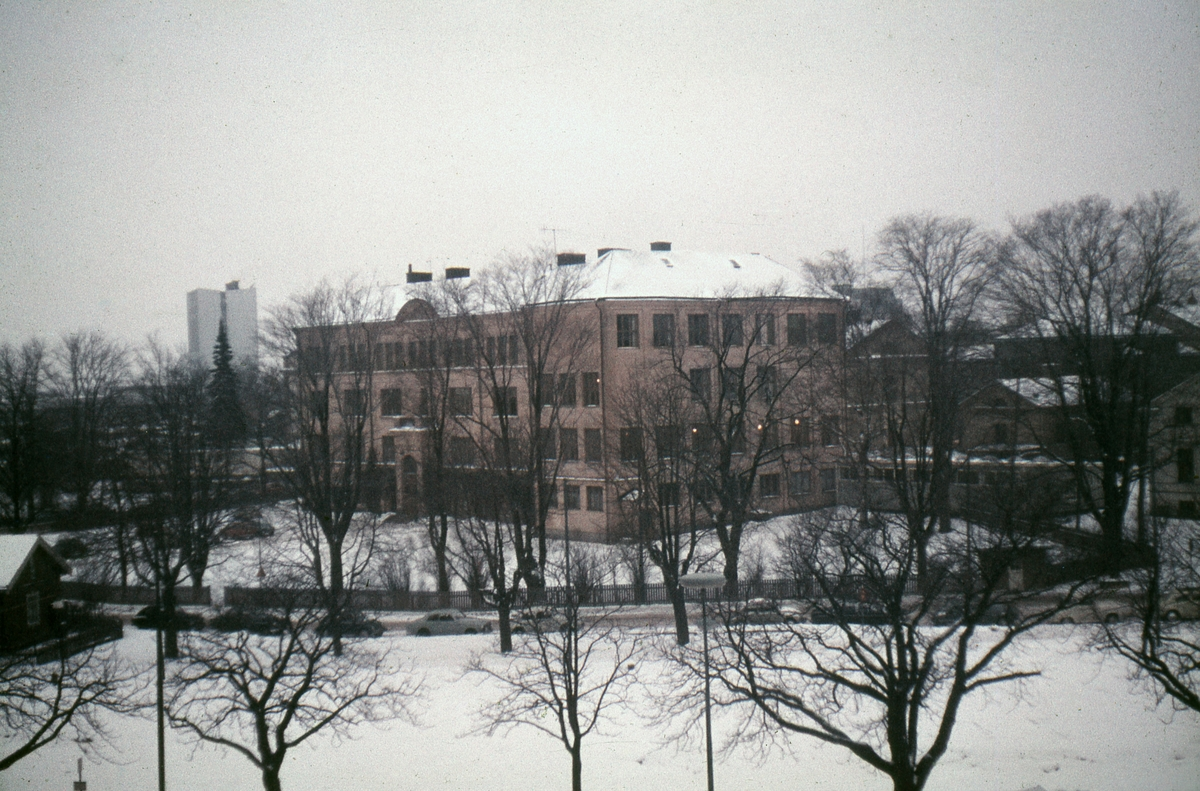 Gamla flickskolan vintern 1970.Verksamheten som 7-årig skola enbart för kvinnliga elever upphörde 1967.